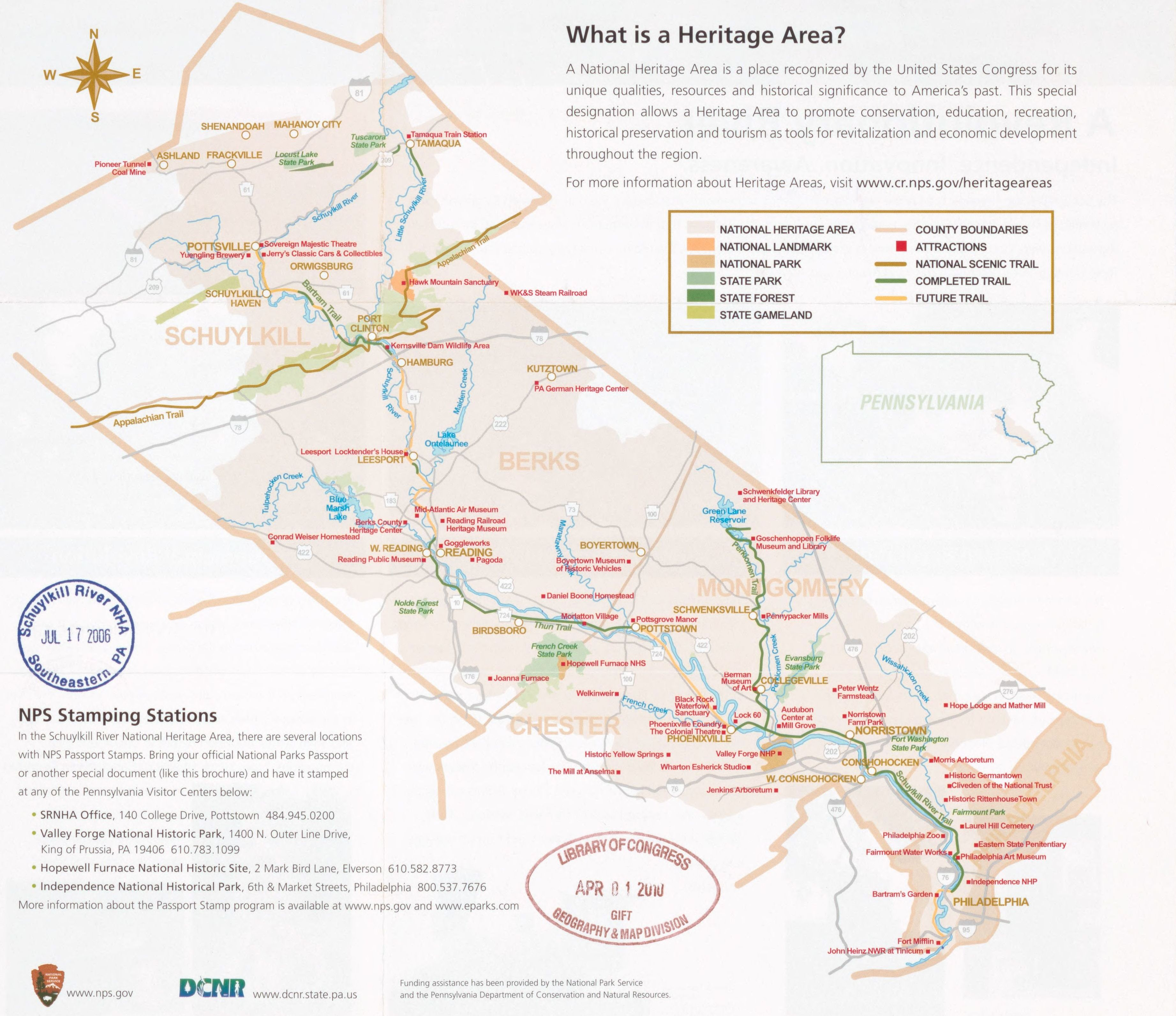 Shows tourist attractions, historic sites, trails, and public lands. Also covers northwestern part (4 counties in Pa.) of Philadelphia region. Title from panel. Includes text, location map (inset), and col. ill. Text and col. ill. on verso. Available also through the Library of Congress Web site as a raster image.